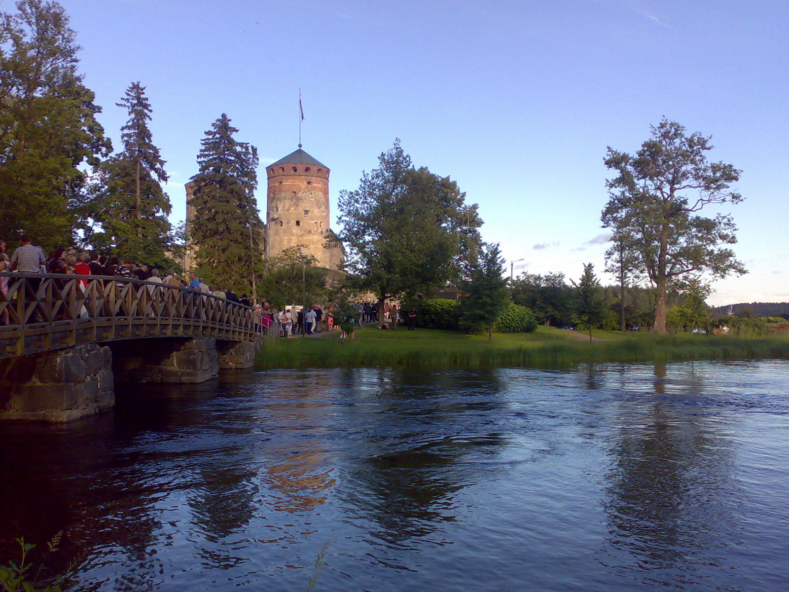 Entering the Opera (in Savonlinna's Olavinlinna)